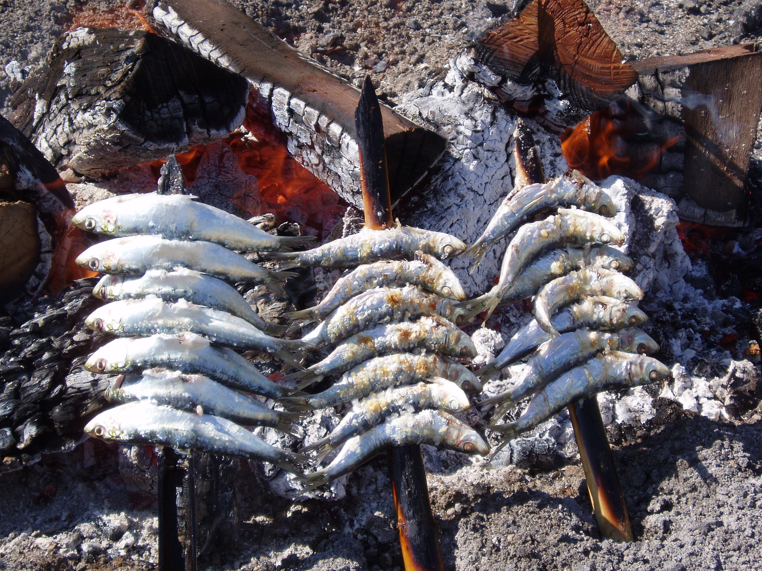 Sardines grilled on the beach of Torre del Mar in Andalucía, (España)